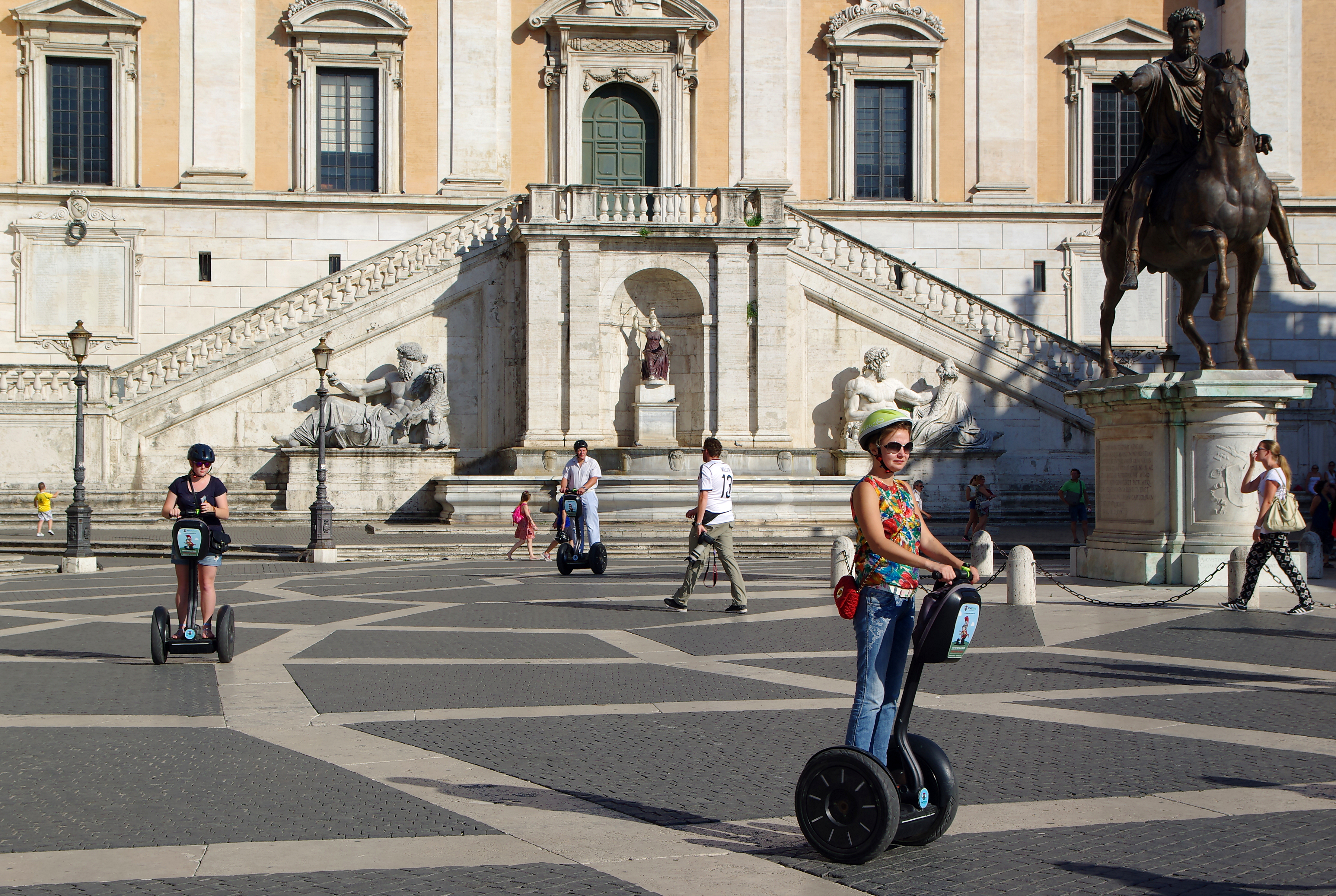 Campidoglio square in Rome, on top of the Capitoline Hill